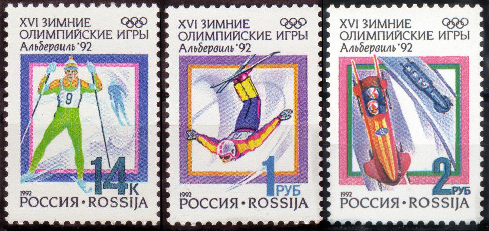 The 16th Winter Olympic Games in Alberville (February 8 - 24, 1992).